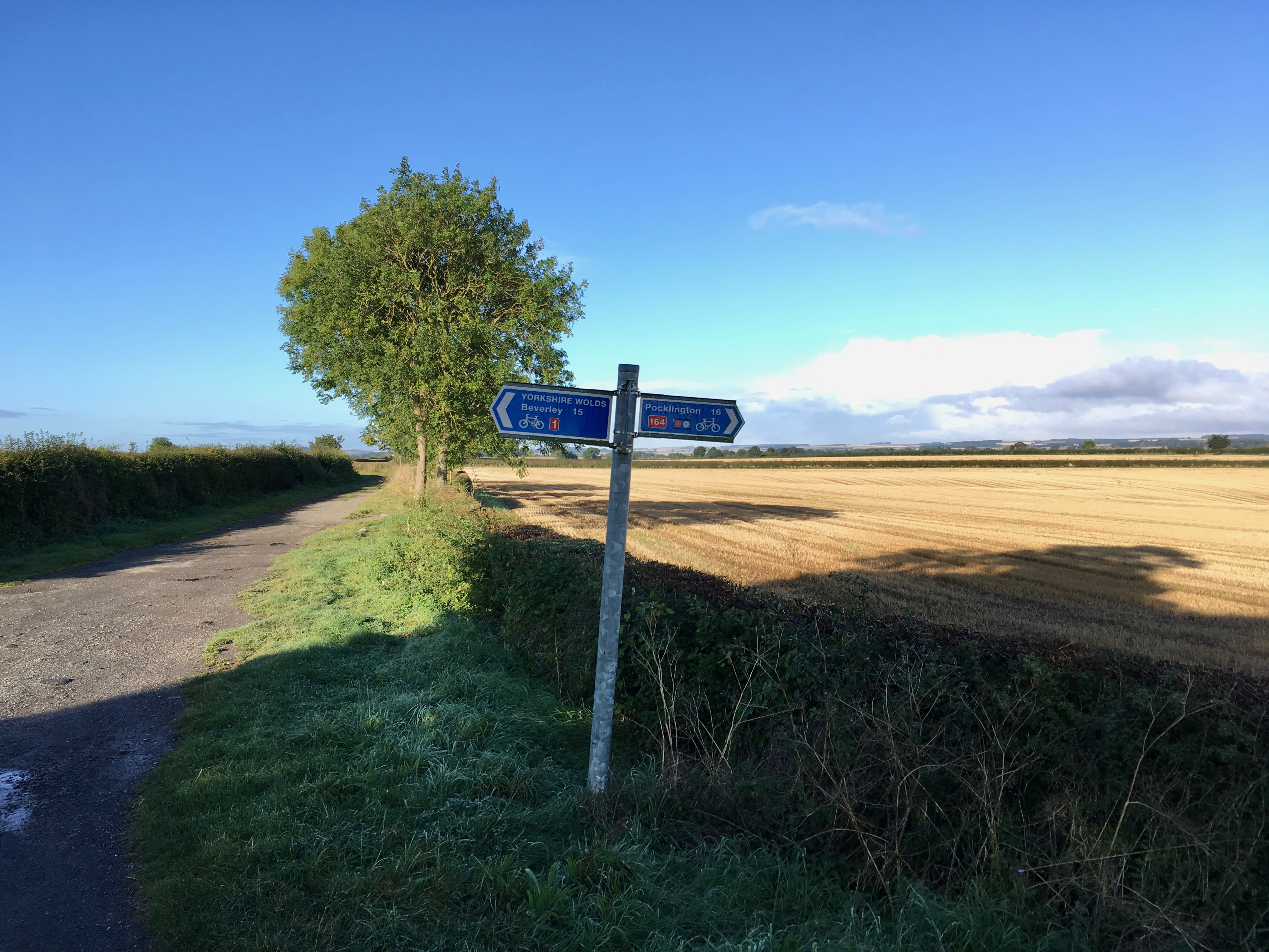 Route sign at the eastern trailhead of National Cycle Network route 164 (northern braid) where it meets route 1 near Hutton Cranswick.